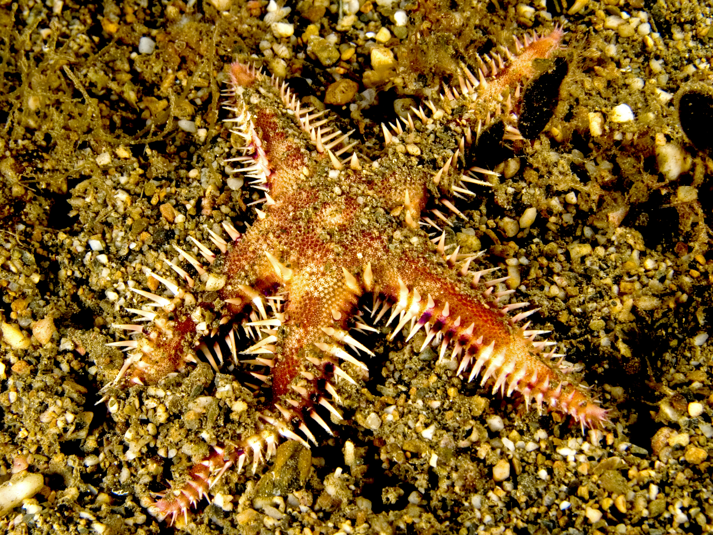 Astropecten polycanthus (Starfish)